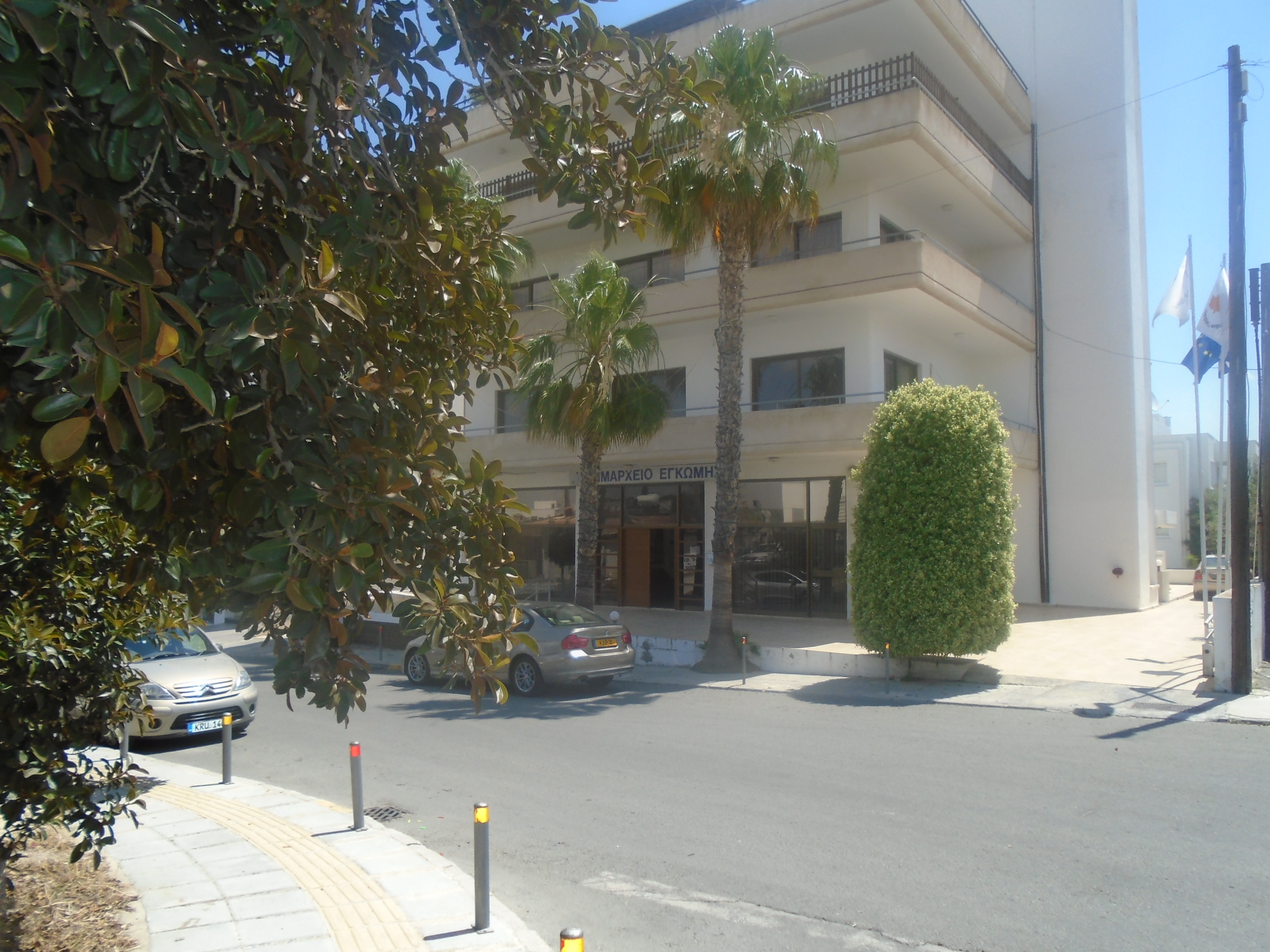 Picture of the Town Hall of Engomi, one of the municipalities in the greater Nicosia area. The Town Hall is situated in Erechtheiou Street, no.3, 2413 Engomi